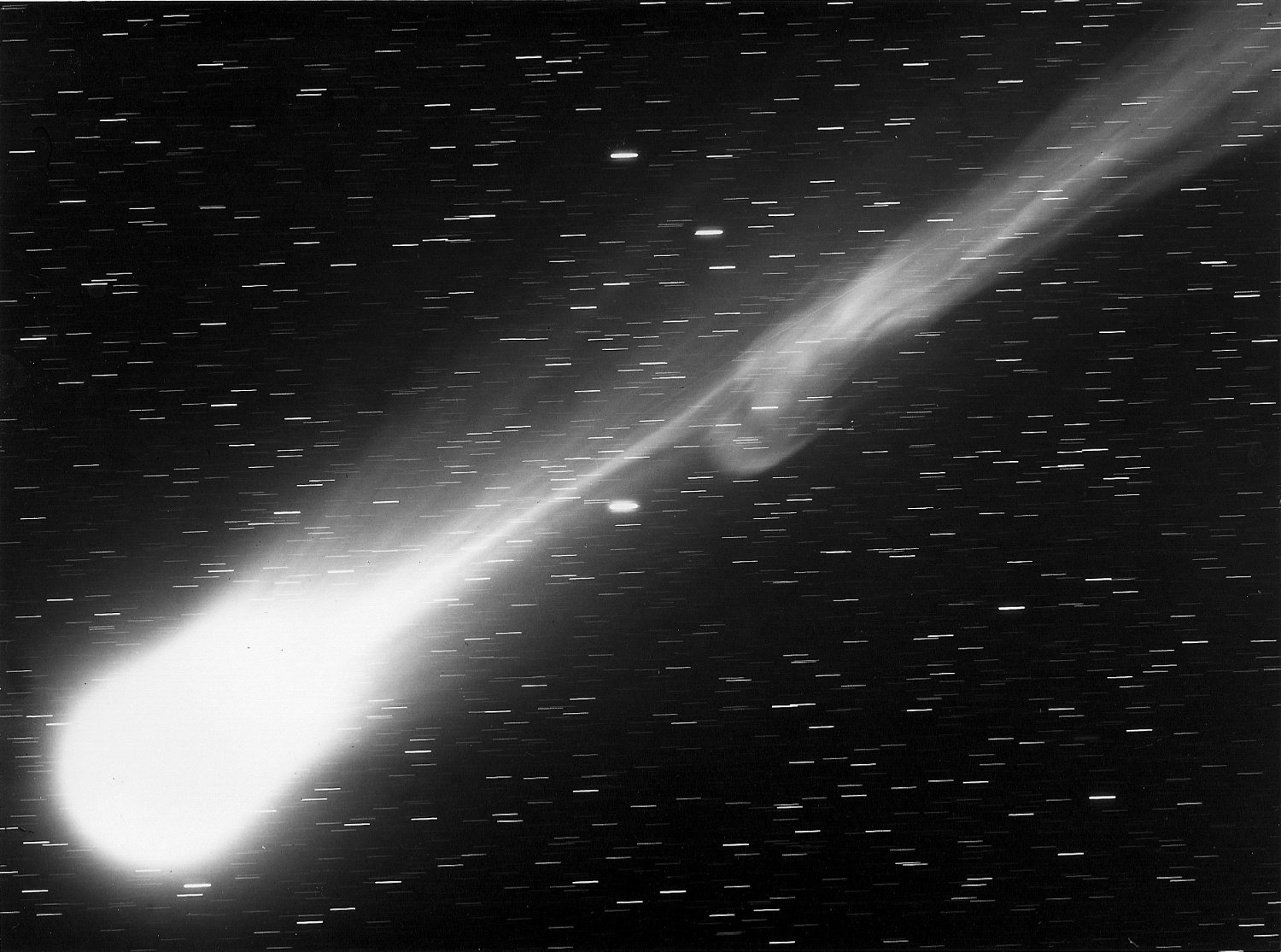 Image of comet C/1996 B2 (Hyakutake), taken on 1996 March 25, with a 225mm f/2.0 Schmidt Camera (focal length 450mm) on Kodak Technical Pan 6415 film. Exposure 0:23 to 0:33 UT (10 minutes). The field shown is about 6.5°x4.8°. Note the prominent disconnection event in the comet's ion tail. Stars in the image appear trailed, as the camera tracked the comet during the exposure.